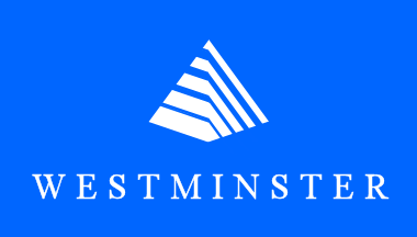 the flag of Westminster